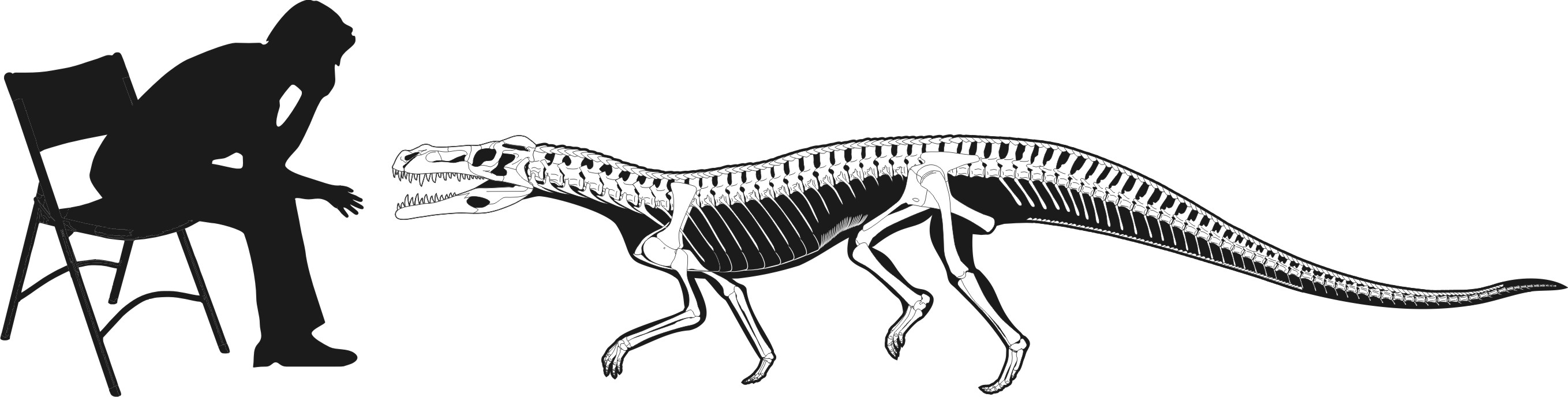 reconstuction of Decuriasuchus